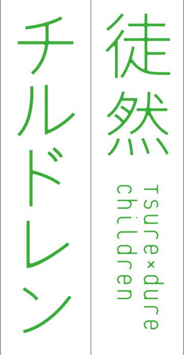 Tsurezure Children Logo